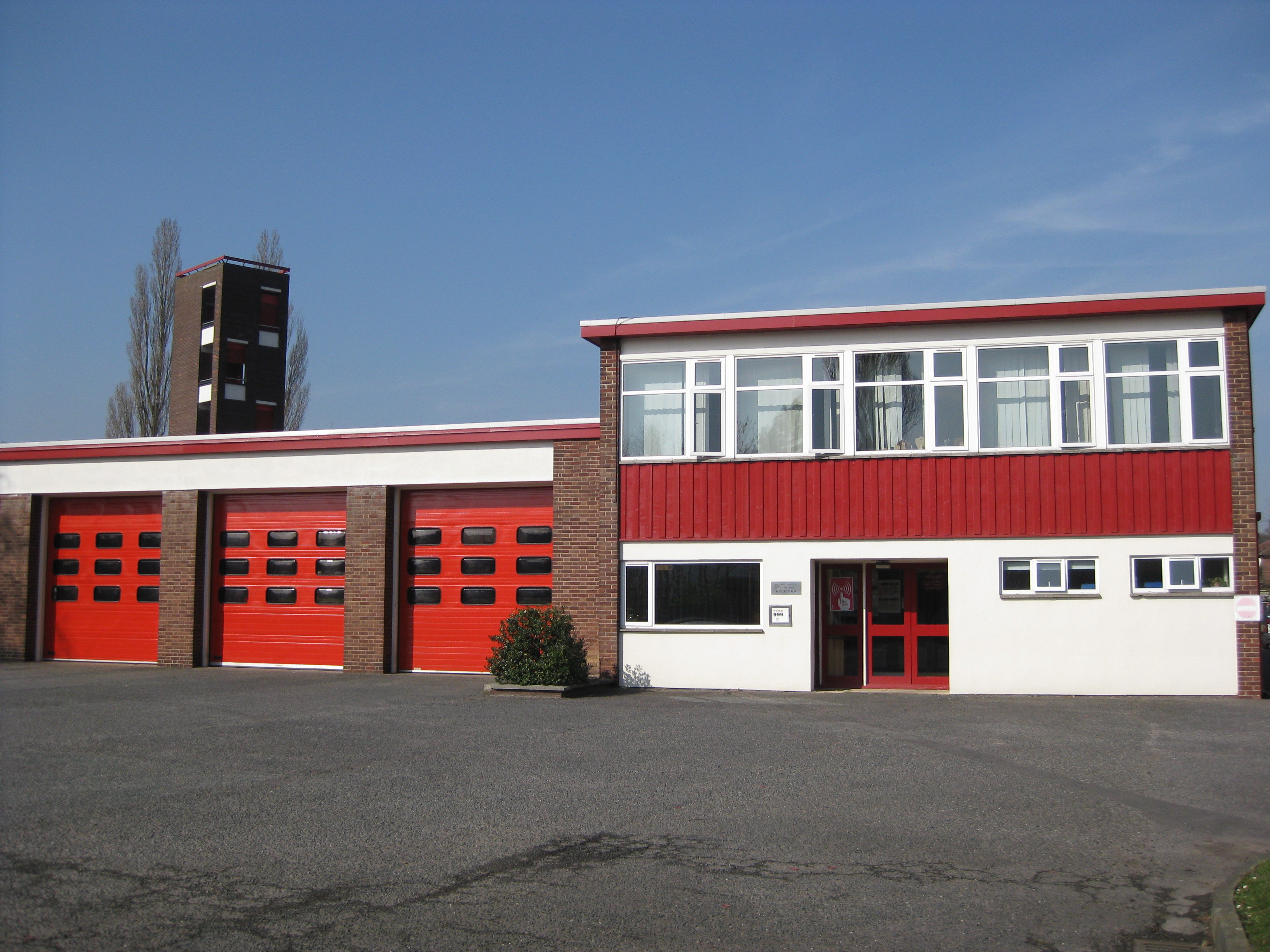 Moortown Fire Station, Stonegate Rd, Leeds LS17 6EJ